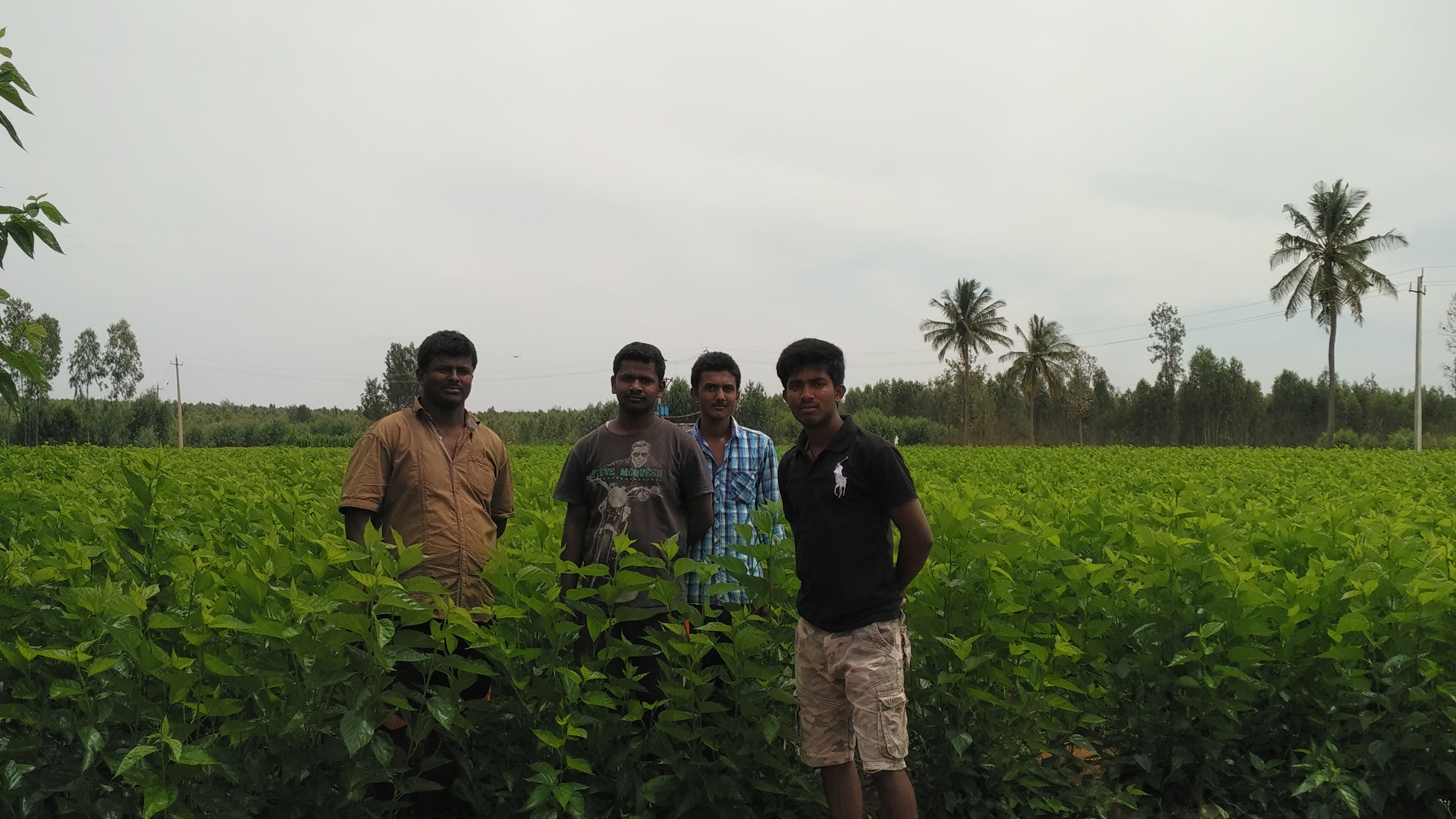 Young men standing inside the Mulberry plantation